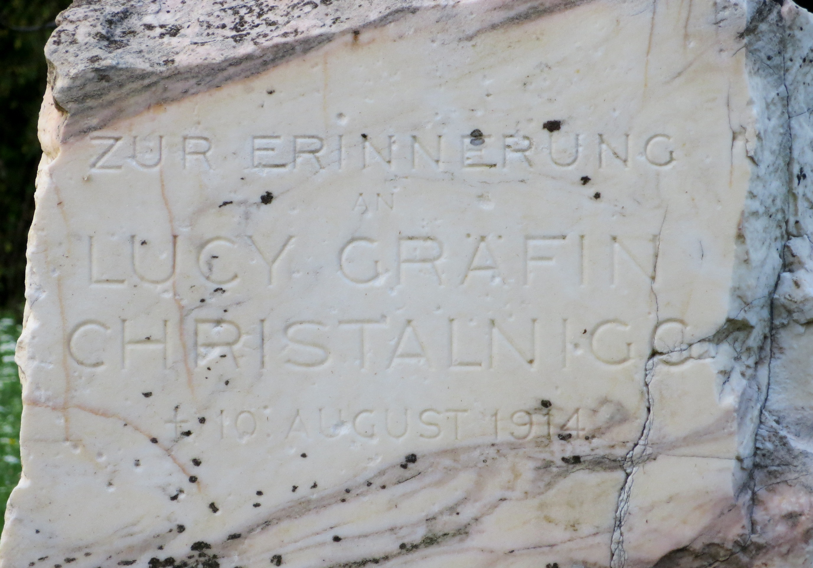 Inscription commemorating Lucy Christalnigg (1872–1914) in Srpenica, Municipality of Bovec, Slovenia